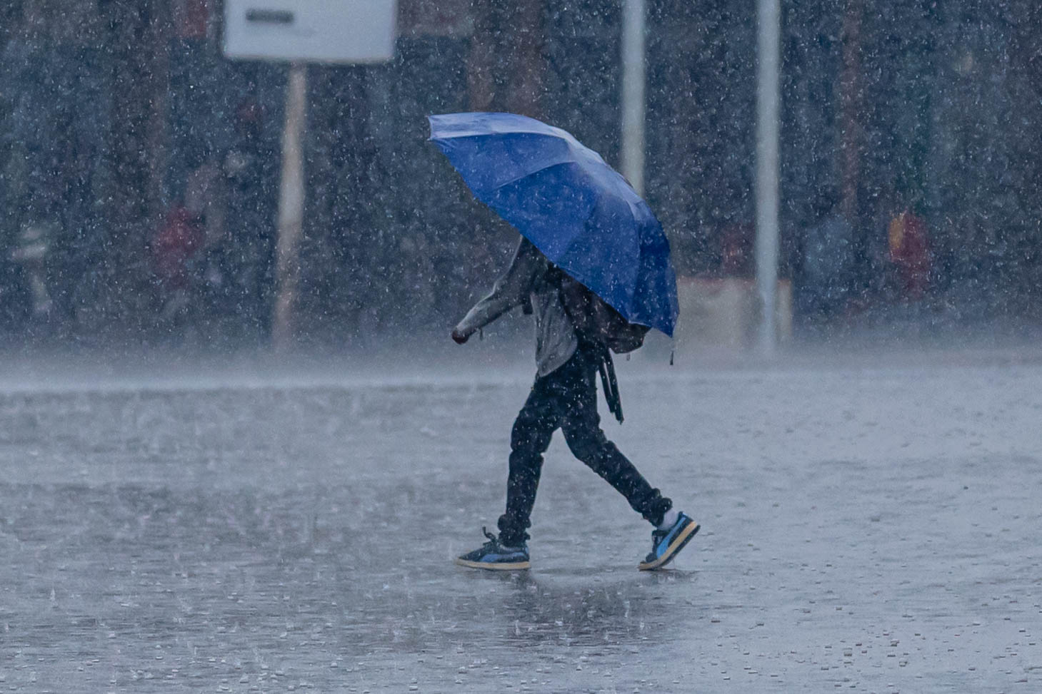 A man walks through heavy rain under an umbrella in Kigali, Rwanda. Emmanuel Kwizera This is an image with the theme "Africa on the Move or Transport" from: Rwanda